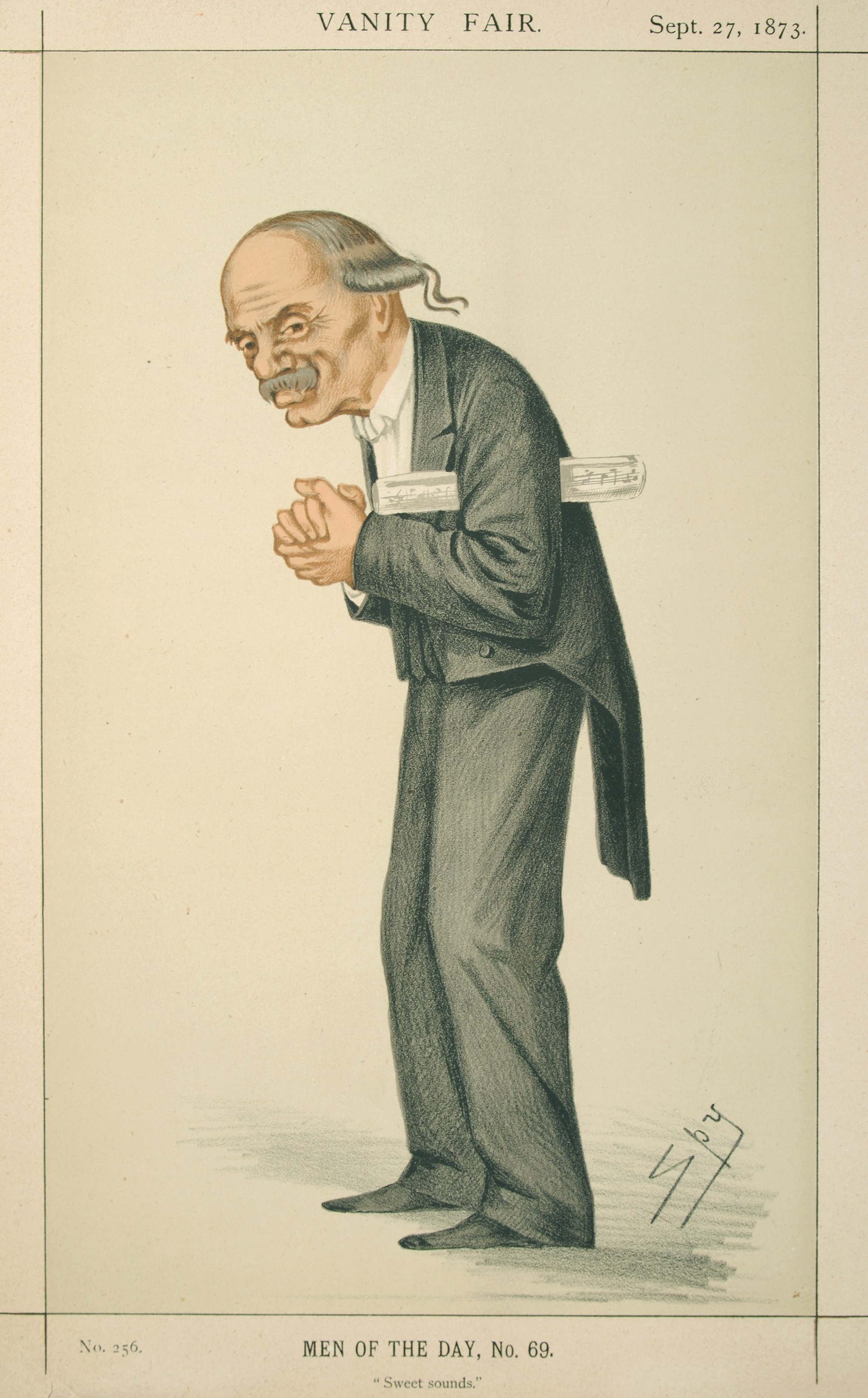 Men of the Day No.69: Caricature of Sir Julius Benedict. Caption read "Sweet sounds".